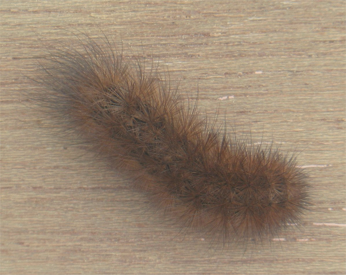 Spilosoma lubricipeda